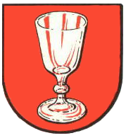 Old coat of arms of Wüstenrot